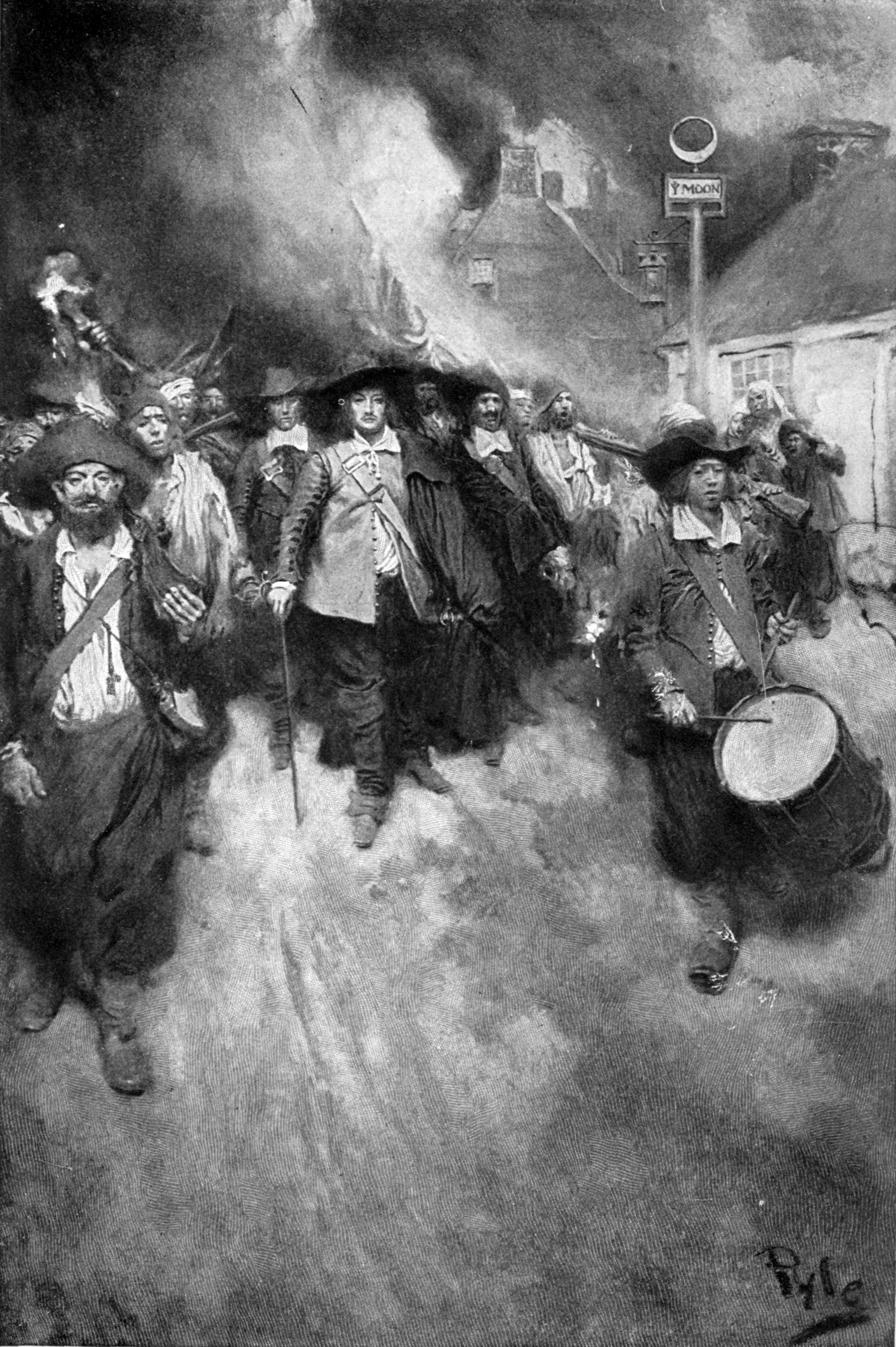 The Burning of Jamestown by Howard Pyle (signature lower right corner). It depicts the burning of Jamestown, Virginia during Bacon's Rebellion (A.D. 1676-77); used to illustrate the article "Jamestown" in Harper's Encyclopaedia of United States History: from 458 A.D. to 1905 (1905).